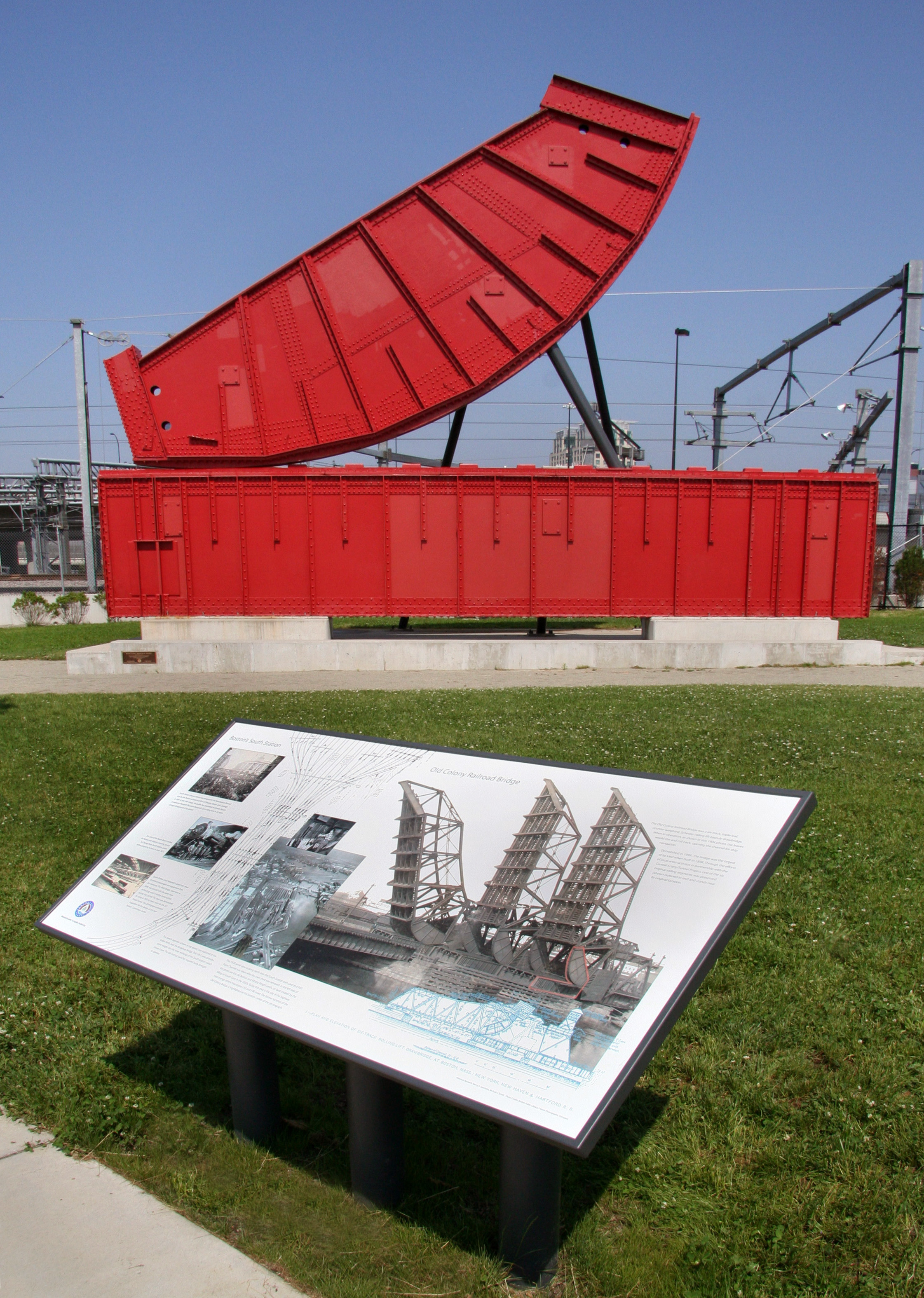 Salvaged section of a much larger railroad lift bridge, built in 1895 to carry three railroad tracks over Fort Point Channel, Boston